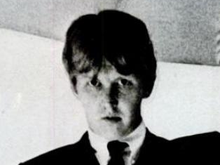 Trade ad for Harry Nilsson's single "You Can't Do That".To better adapt it to his respective Wikipedia article, the ad was cropped and cleaned in a graphics editing program. The original can be viewed at the source below.